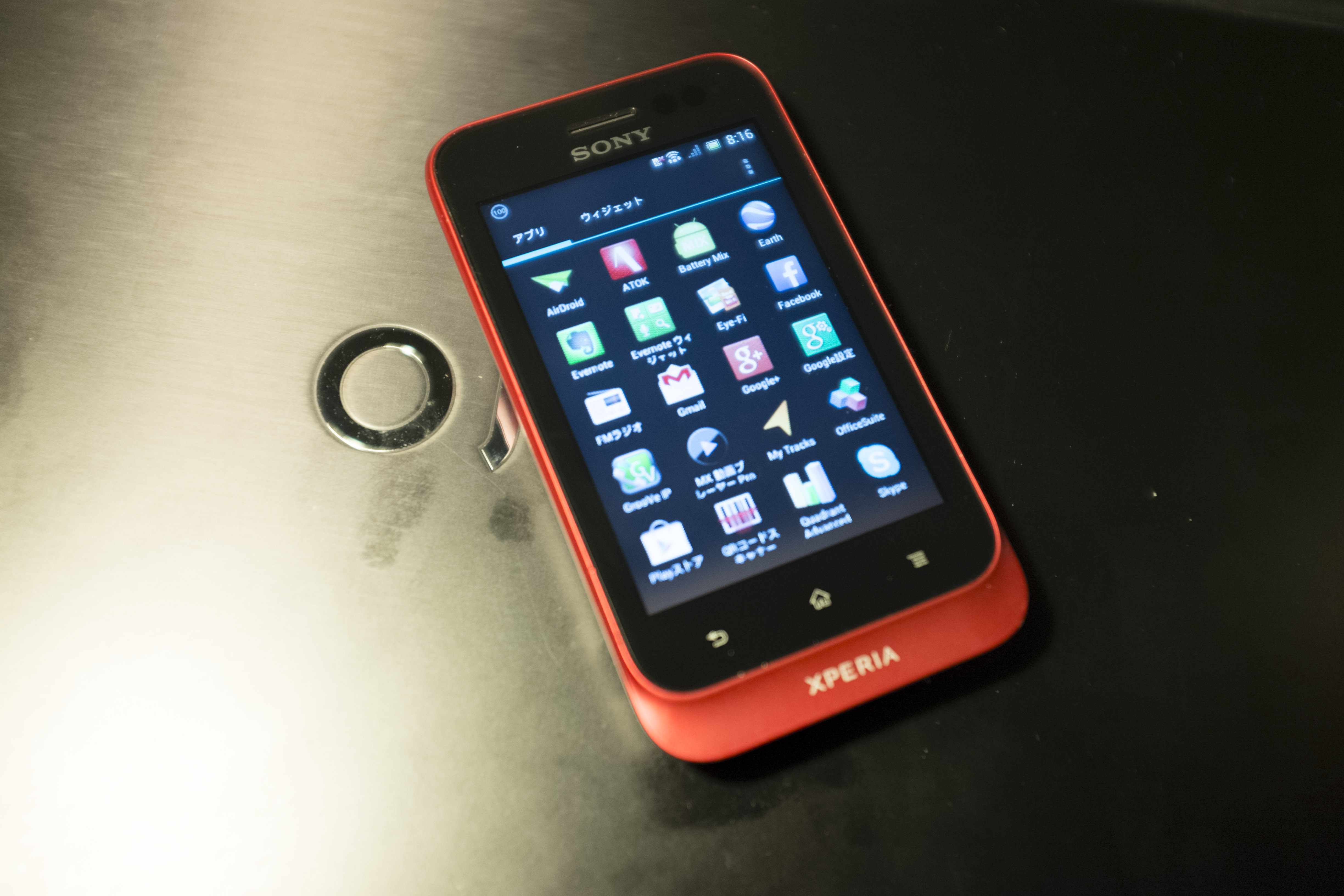 Xperia tipo overview